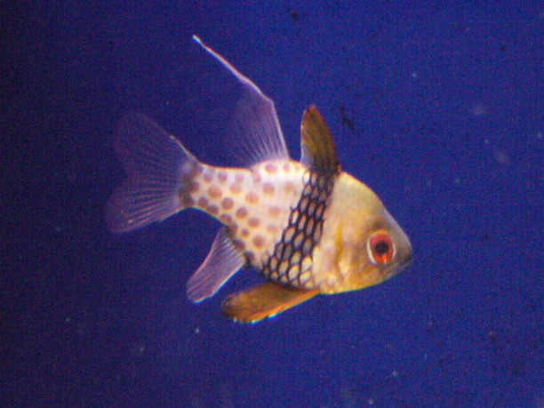 Sphaeramia nemanoptera (Pajama / spotted cardinal) in Sala Humboldt of Aquarium Finisterrae (House of the Fishes), in Corunna, Galicia, Spain.